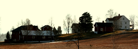 Engeloug østre, Løten, Norway. Edvard Munch's birthplace.